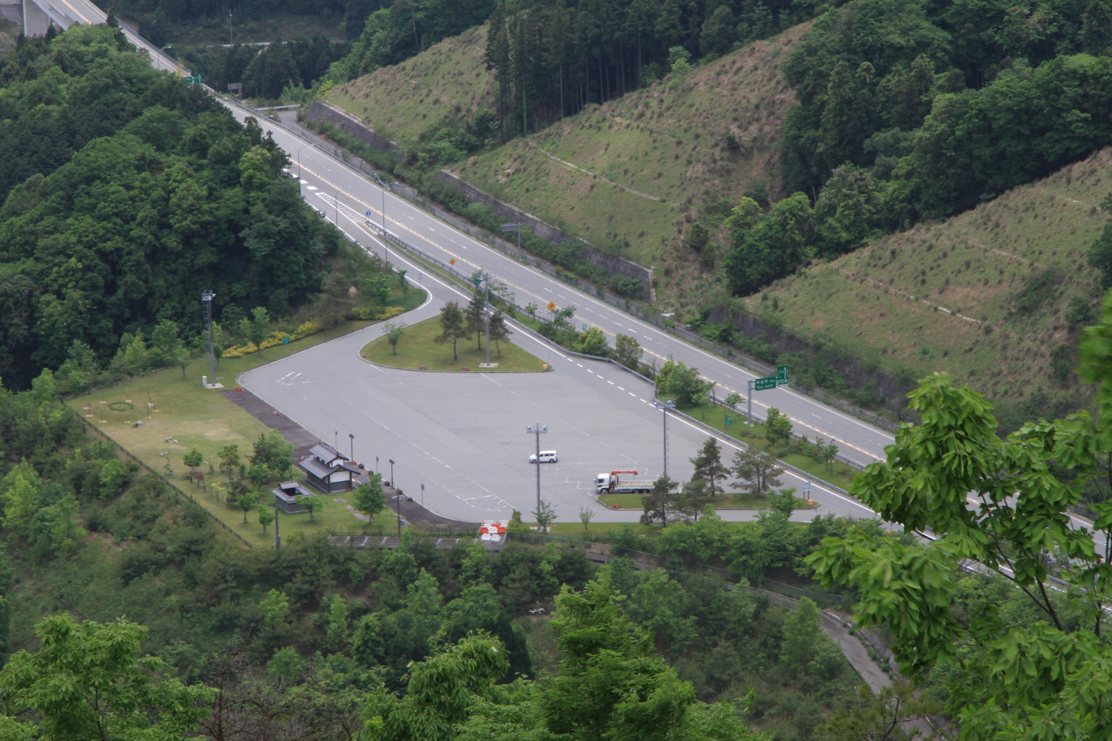 Wadayama rest area Hyogo, Japan